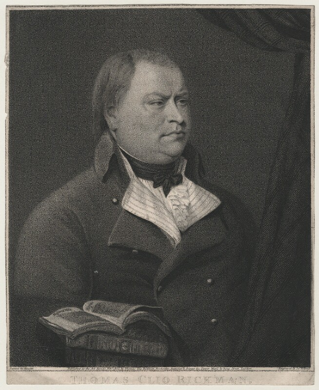 Portrait of Thomas 'Clio' Rickman (1760–1834), English Quaker publisher of political pamphlets.